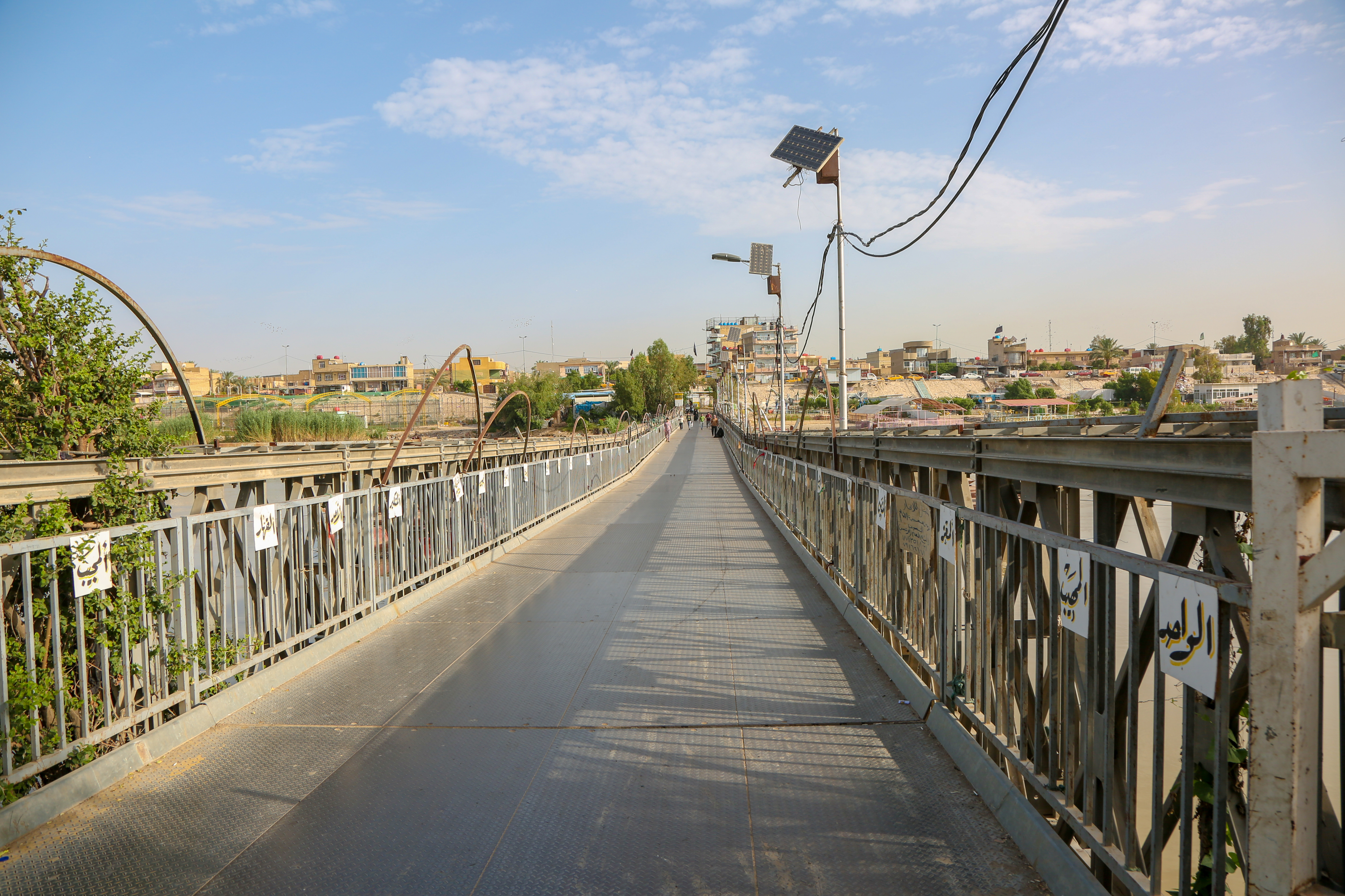 Baghdad, Iraq– April 4, 2020: photo for alkarieat bridge in Baghdad city in Iraq, That links Karkh and Rusafa on Tigris river, It is an iron bridge linking the Kadhimiya and the Kiryat.